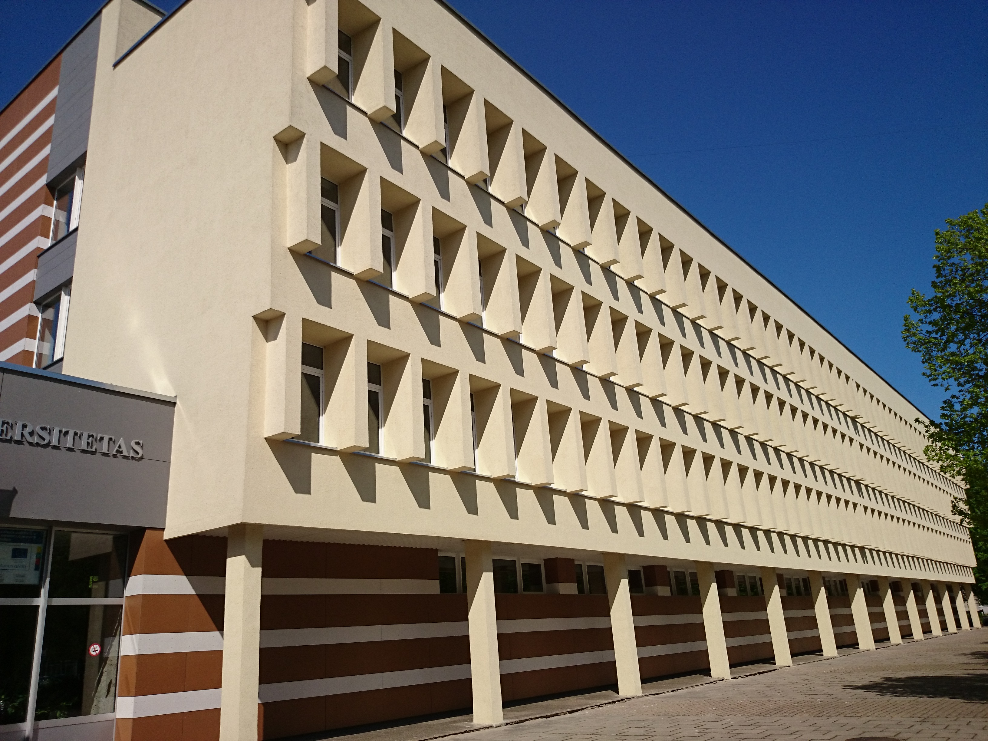 Vilnius Pedagogical University